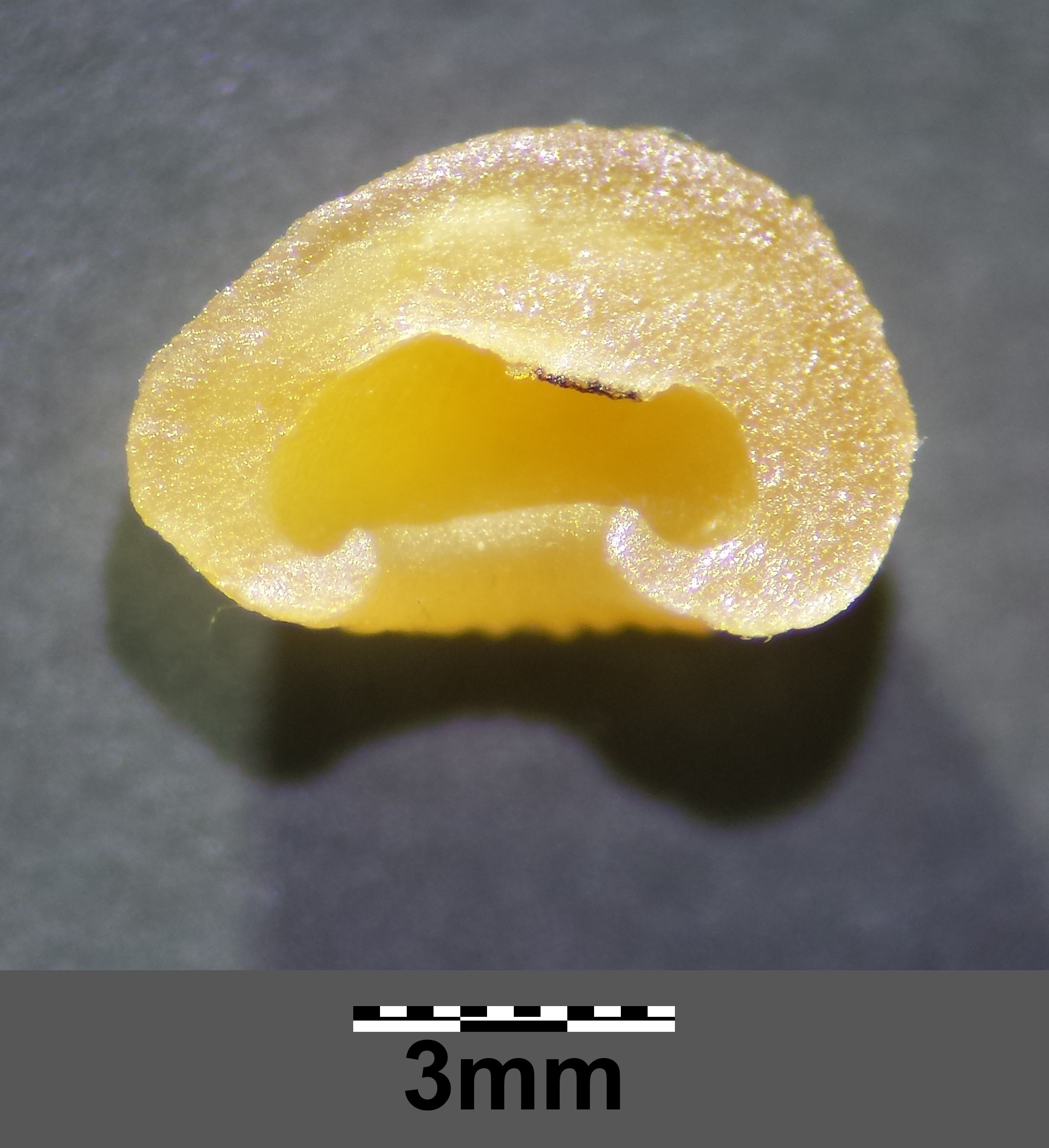 Seed cut through Taxonym: Veronica sublobata ss Fischer et al. EfÖLS 2008 ISBN 978-3-85474-187-9 Location: near Niederhollabrunn, district Korneuburg, Lower Austria - ca. 350 m a.s.l. (leg.: 2016-05-15) Habitat: wine yard / border of a shrubbery